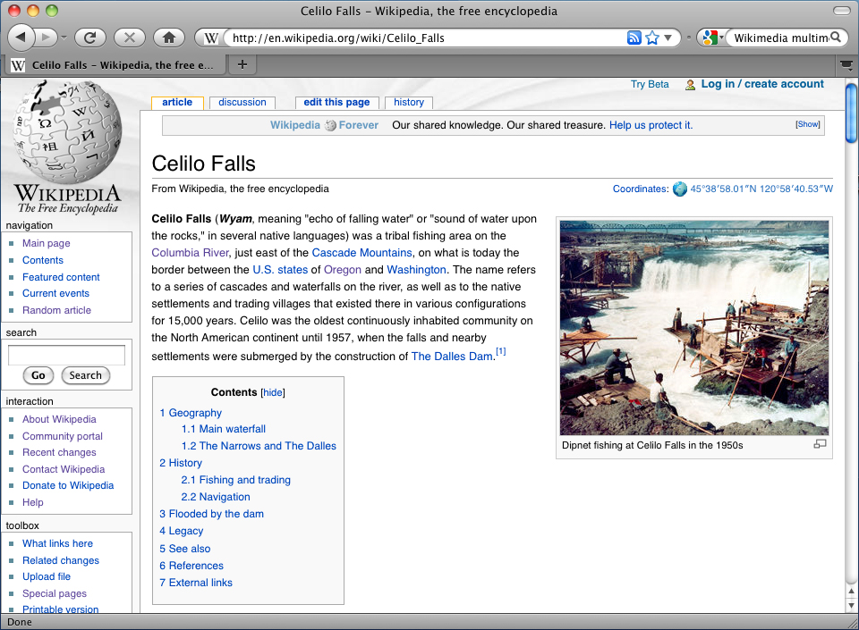 Sreenshot of the article "Celilo Falls" on English Wikipedia